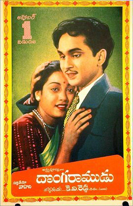 Donga Ramudu (1955) Telugu Movie poster